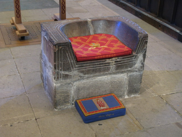 The Frith Stool, Hexham Abbey 'The Frith Stool, or St. Wilfrid's Throne, dates from the 7th century. It was the "Chair of Peace": frith in Anlgo-Saxon English and Old German meaning peace, security and freedom from molestation. Many of the greater churches had such frith stools placed close to the high altar. Refugees in time of trouble or civil war, or wrongdoers in flight from authority and justice, could claim the protection of the Church until they were assured of a full and fair trial. In Tudor times, the right of sanctuary became strictly limited, as Henry VIII would allow no-one to defy the royal law; the right was subsequently abolished.' [Source: (adapted from) Hexham Abbey Leaflet No.2]